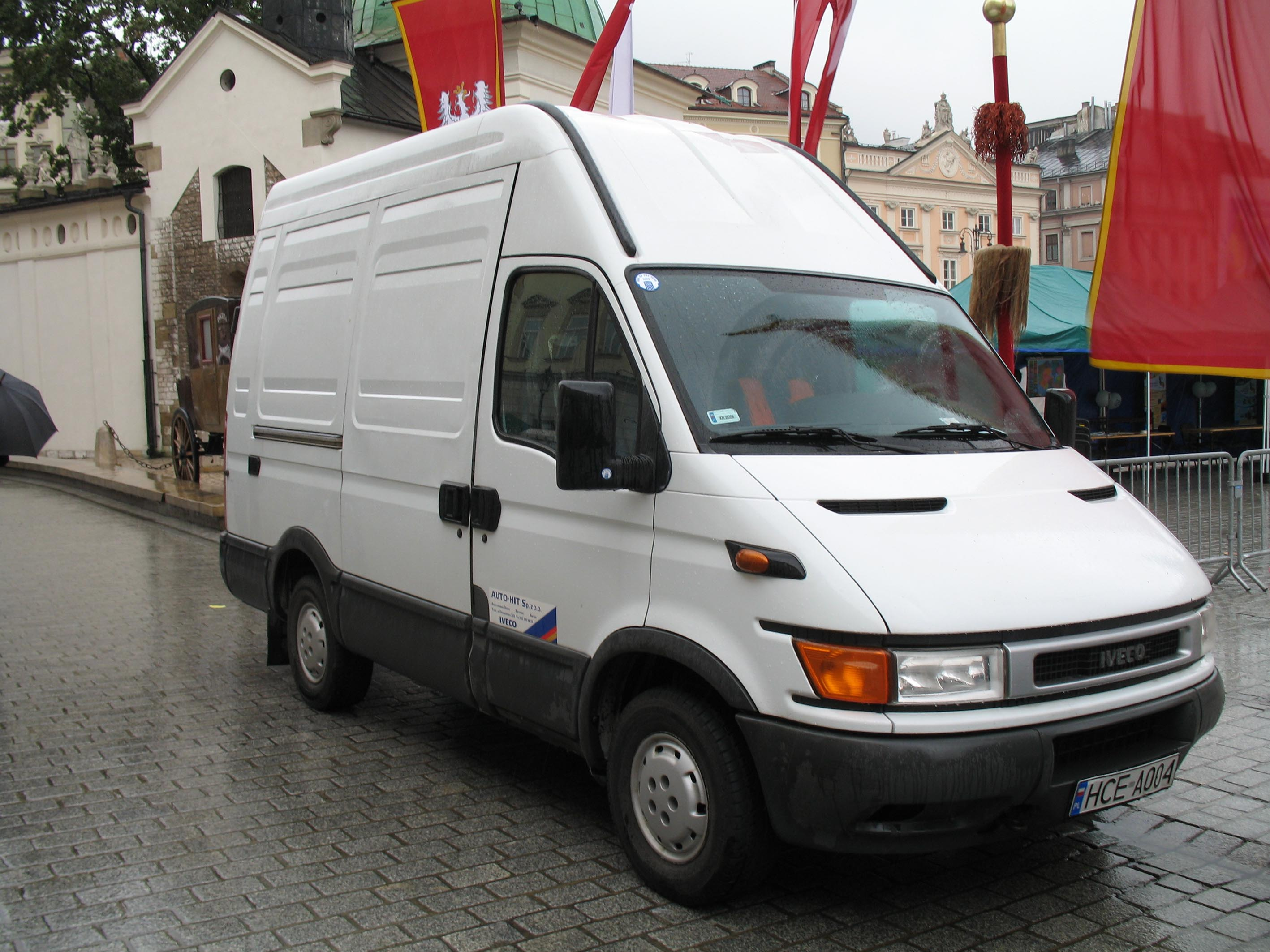 Iveco Daily 35S11 in Kraków, Poland. Van of the Year 2000.